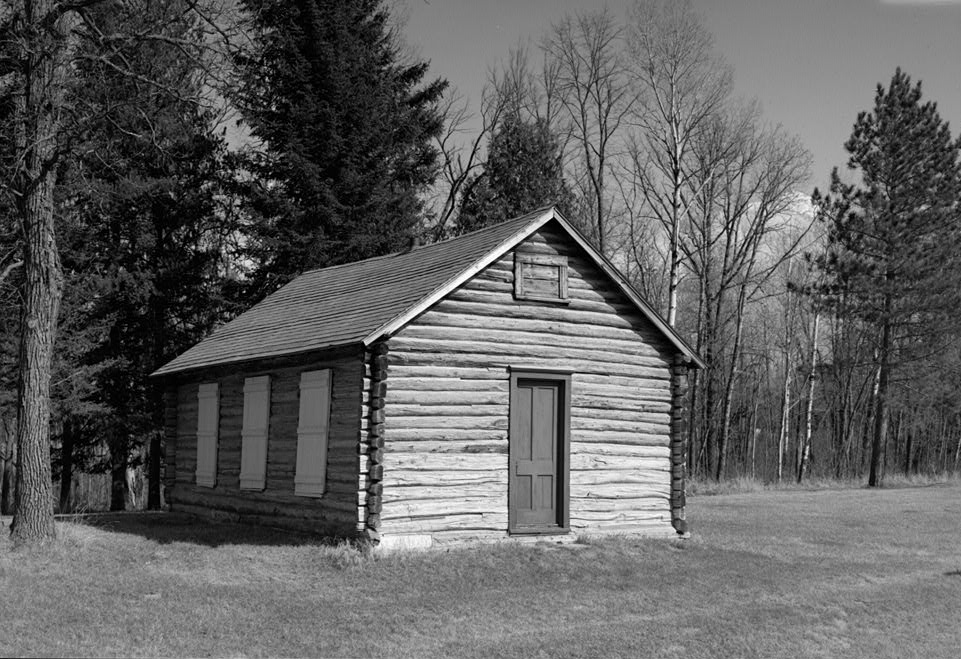 One of the Saum Schools, located near Kelliher in Beltrami County, Minnesota, United States. The building is listed on the National Register of Historic Places.